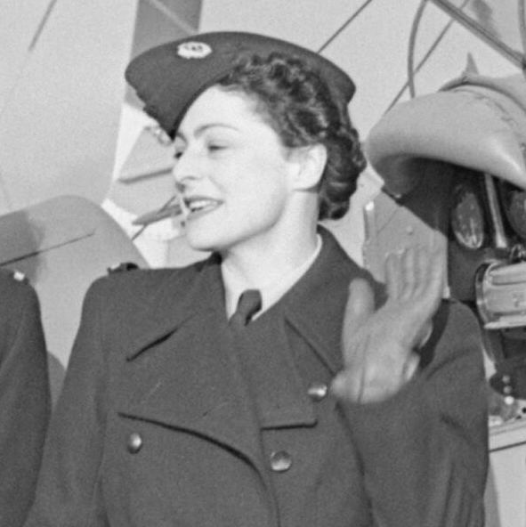 The Air Transport Auxiliary, 1939-1945. Pauline Gower (far left), Commandant of the Women's Section of the ATA, stands with eight other founding female ATA pilots at Hatfield, Hertfordshire, by newly-completed De Havilland Tiger Moths awaiting delivery to their units. The other pilots are; (left to right), Mrs Winifred Crossley, Miss M Cunnison, The Hon. Mrs Fairweather, Miss Mona Friedlander, Miss Joan Hughes, Mrs G Paterson, Miss Rosemary Rees and Mrs Marion Wilberforce.